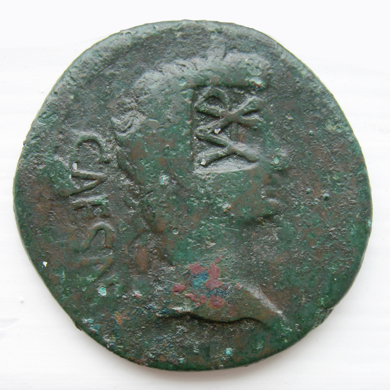 As Lugdunum I (RIC 230), head of Augustus r., countermarked "VAR" (Varus).